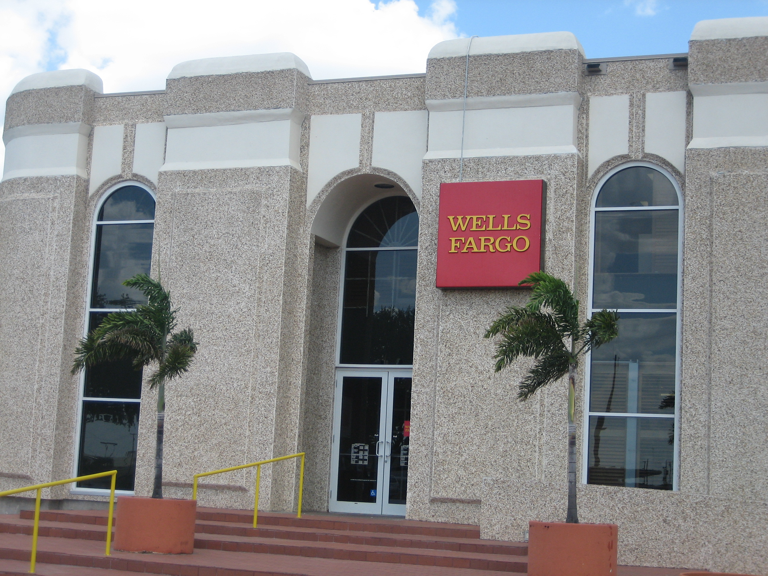 I took photo on June 17, 2009.